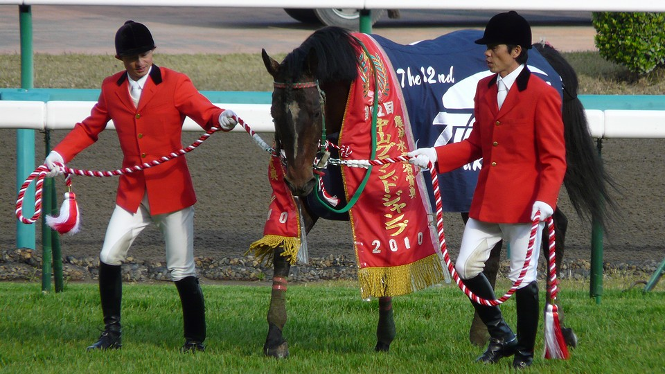 Merci-Mont-Saint20100417